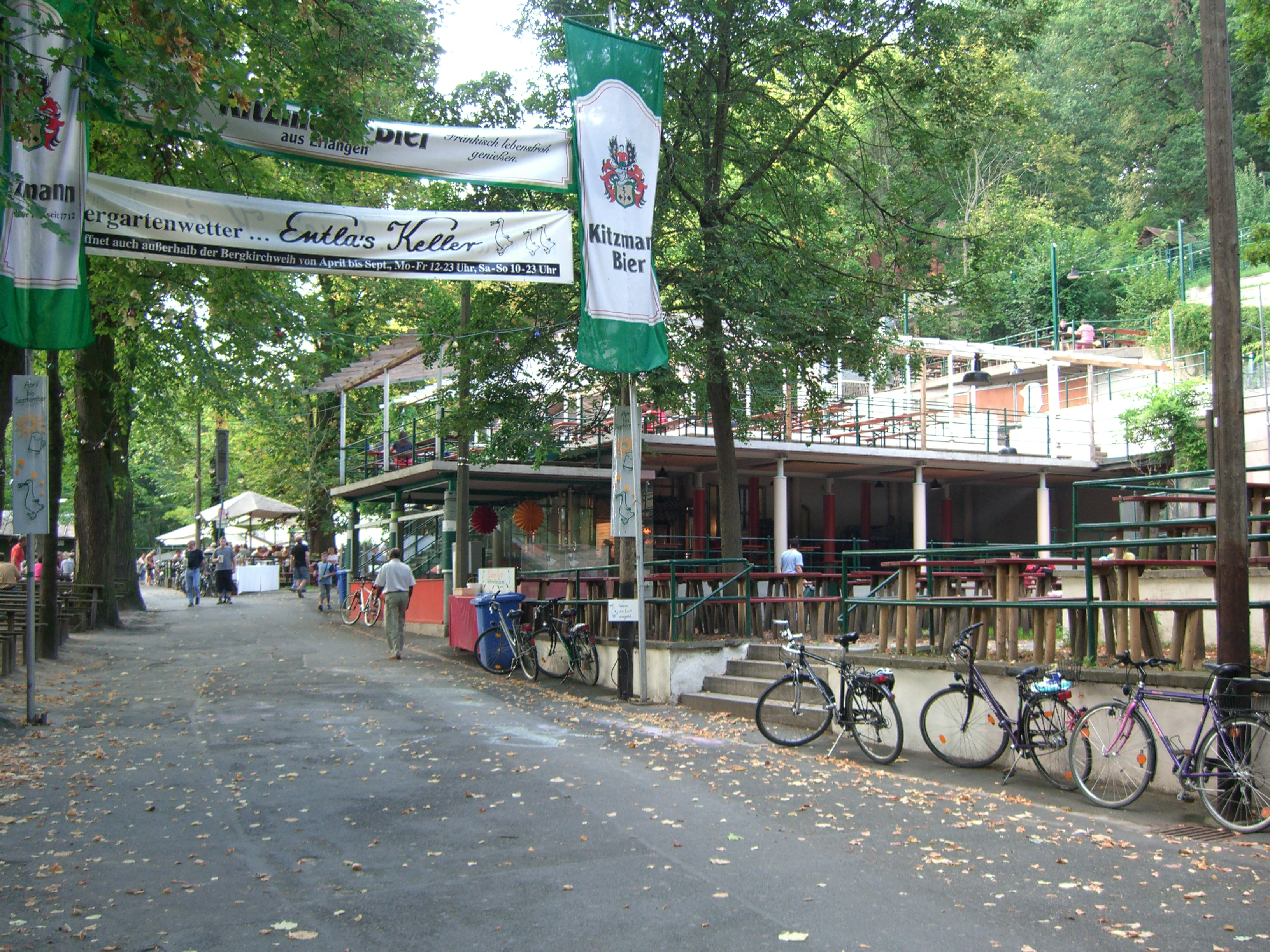 Entrance of the Entla's Keller at the compound of the Bergkirchweih at the Burgberg in Erlangen, Germany.